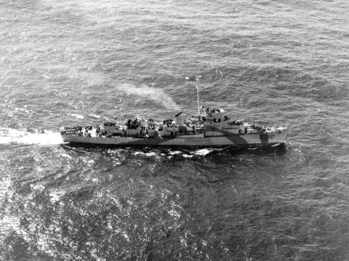 The Royal Navy frigate HMS Bayntun (K310) underway at sea on 24 March 1943.